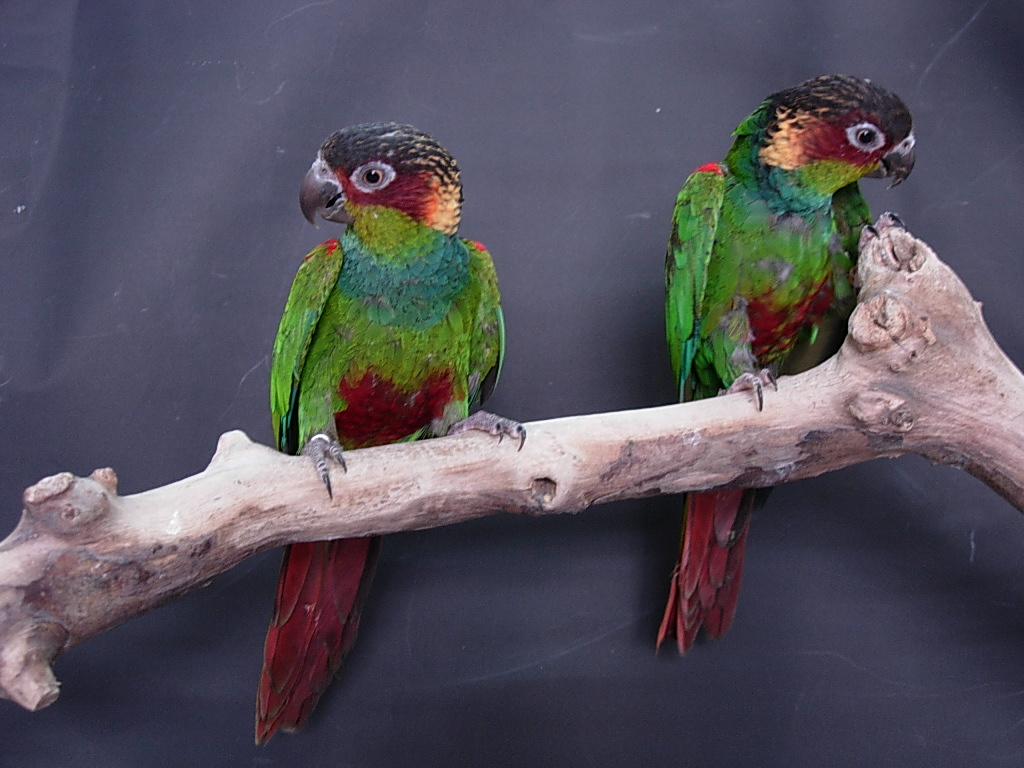 Blue-chested Parakeet (also known as Blue-throated Parakeet or Blue-throated Conure); two on a perch.